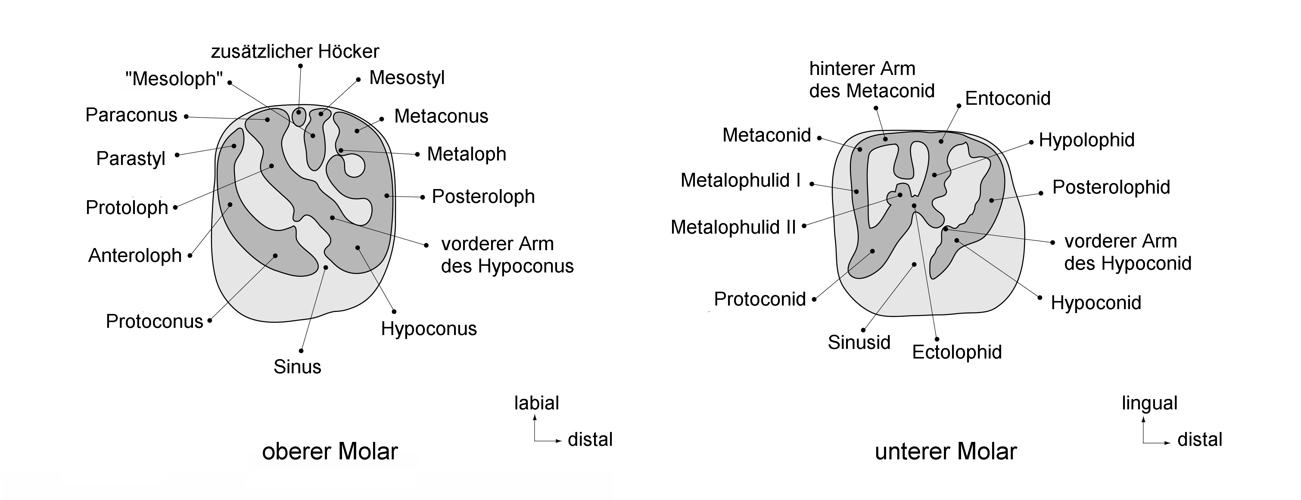 Terminology used to describe features of the second upper and lower molars of Gaudeamus aslius, translated in German